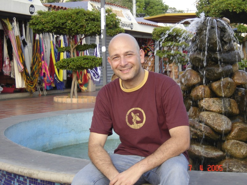 A picture of Harry Mitsidis, somewhere around the world